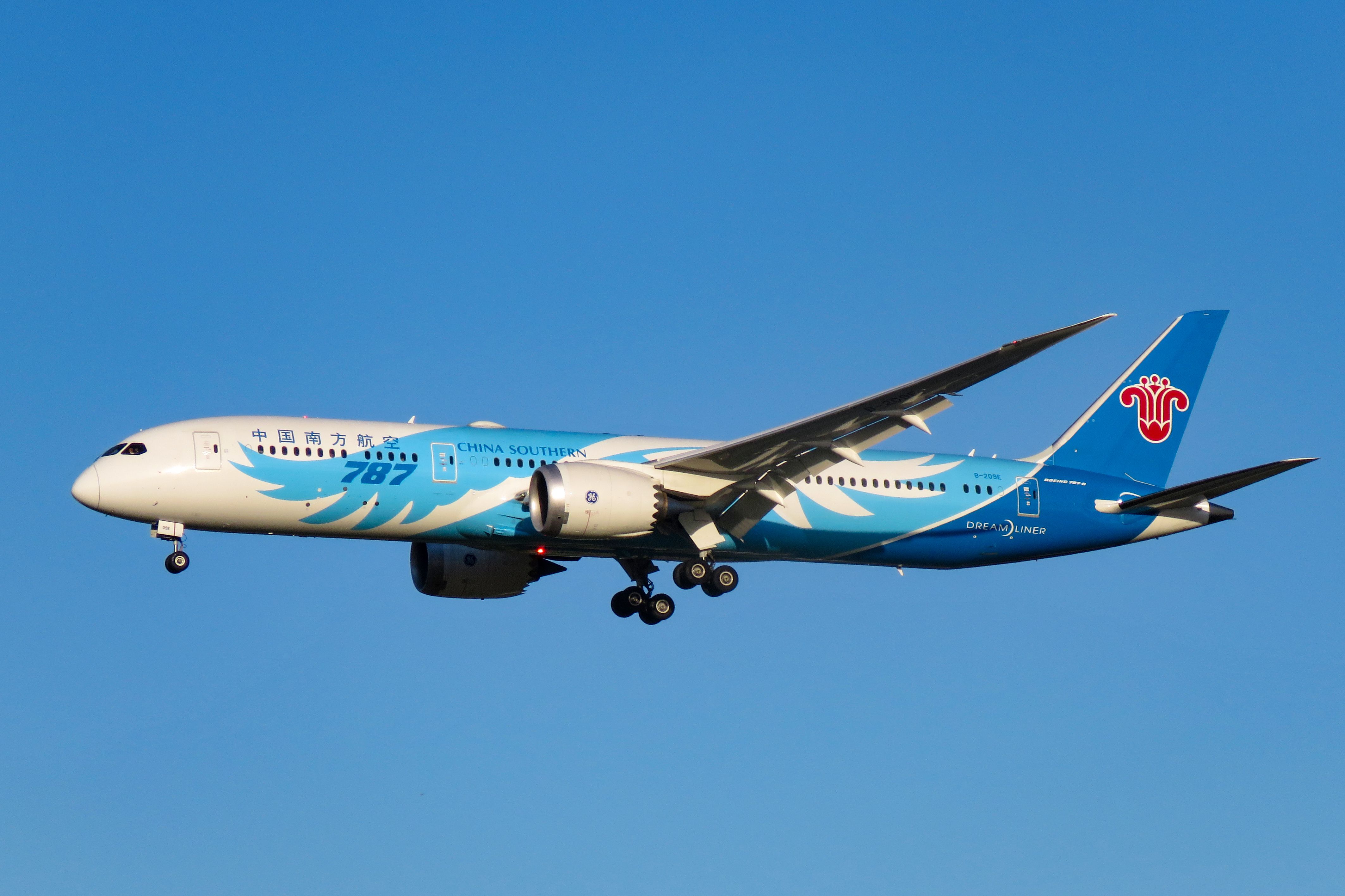 China Southern 3999 from Guangzhou, rarely landing on 01.